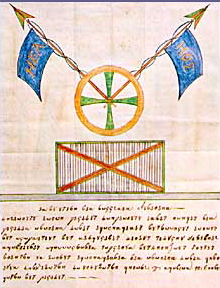 Flag of / Drapeau de la Filikí Etería